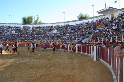 Plaza de toros de Manzanares